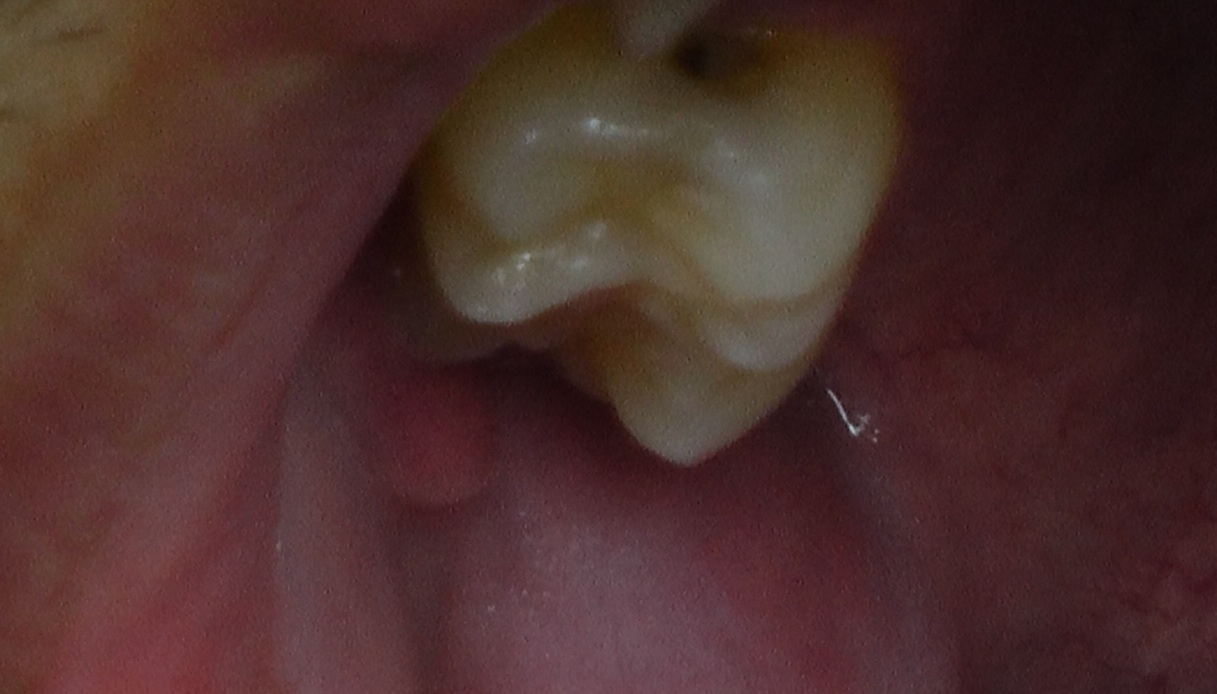 Molar Tooth - Photo by Persian Dutch Network